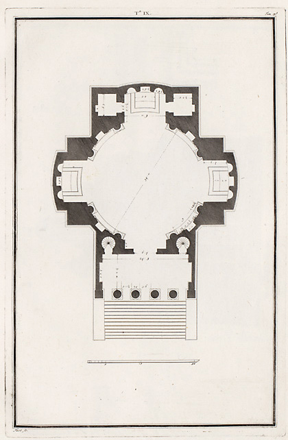 Little temple of Villa Barbaro in Maser by Andrea Palladio. Drawing by Ottavio Bertotti Scamozzi, 1783.